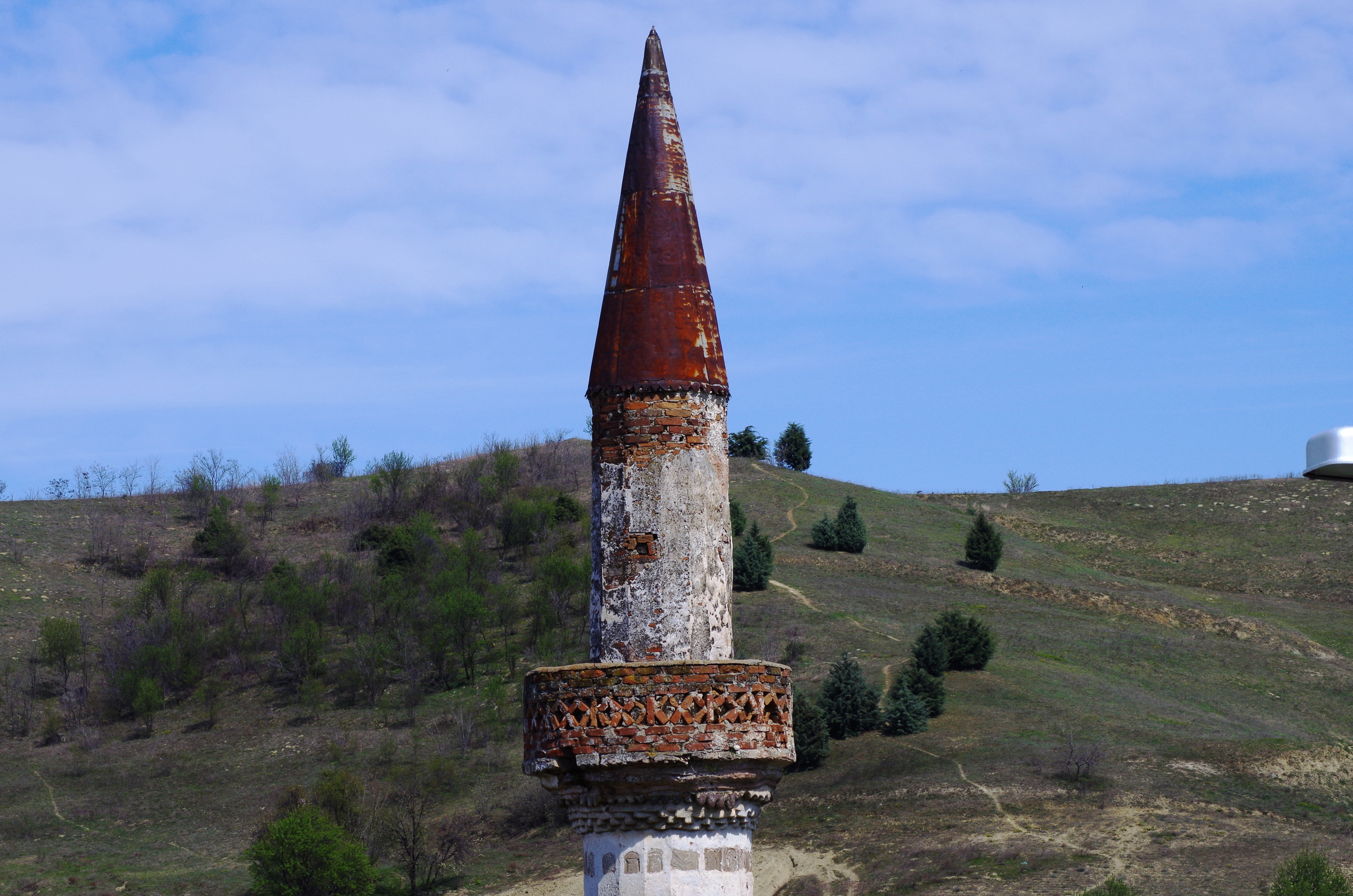 Minaret of the mosque in the village Dolni Disan